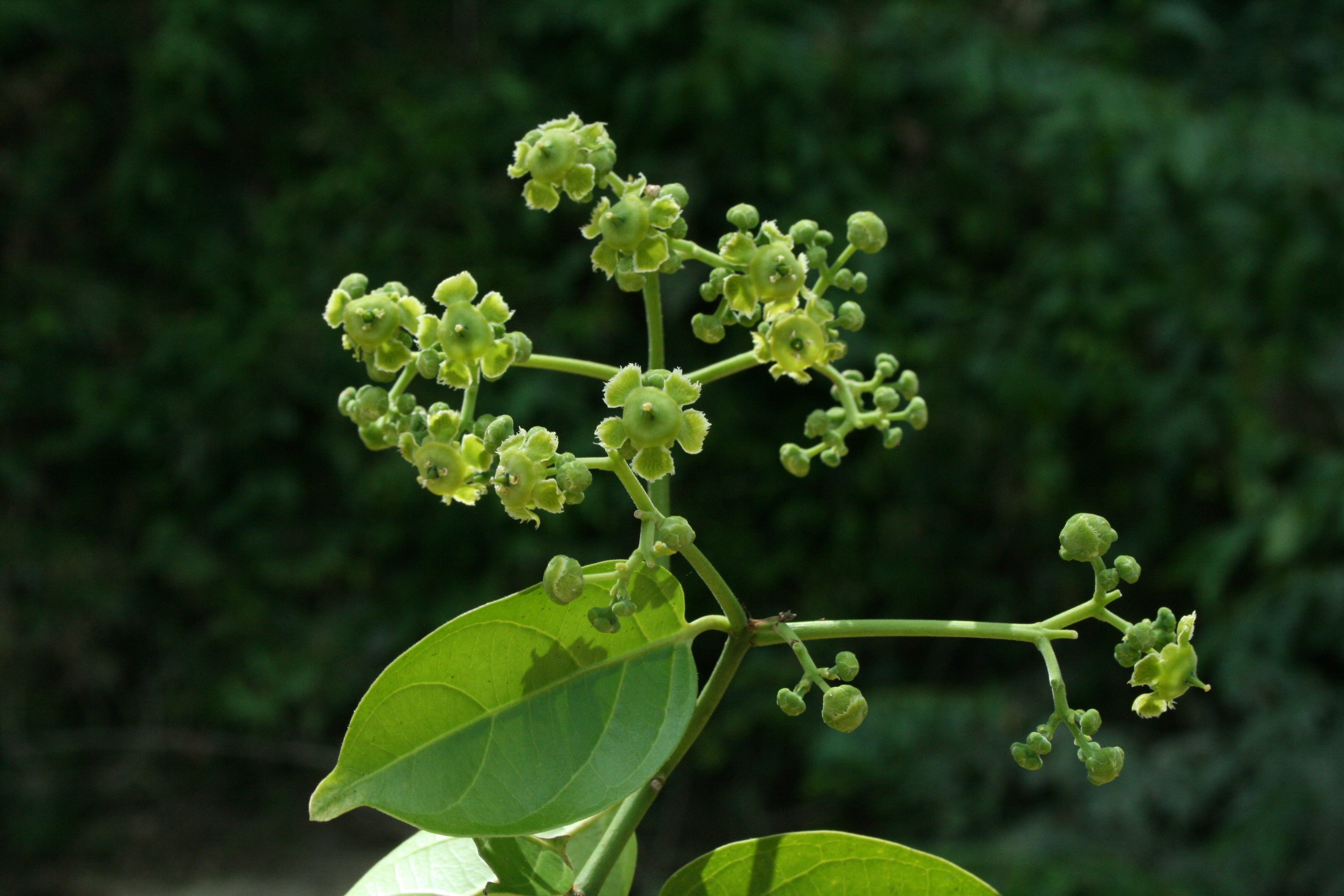 Flowers of the liana Prionostemma aspera, Rio Nicharé, Venezuela